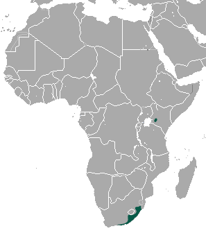 Least Dwarf Shrew (Suncus infinitesimus) range